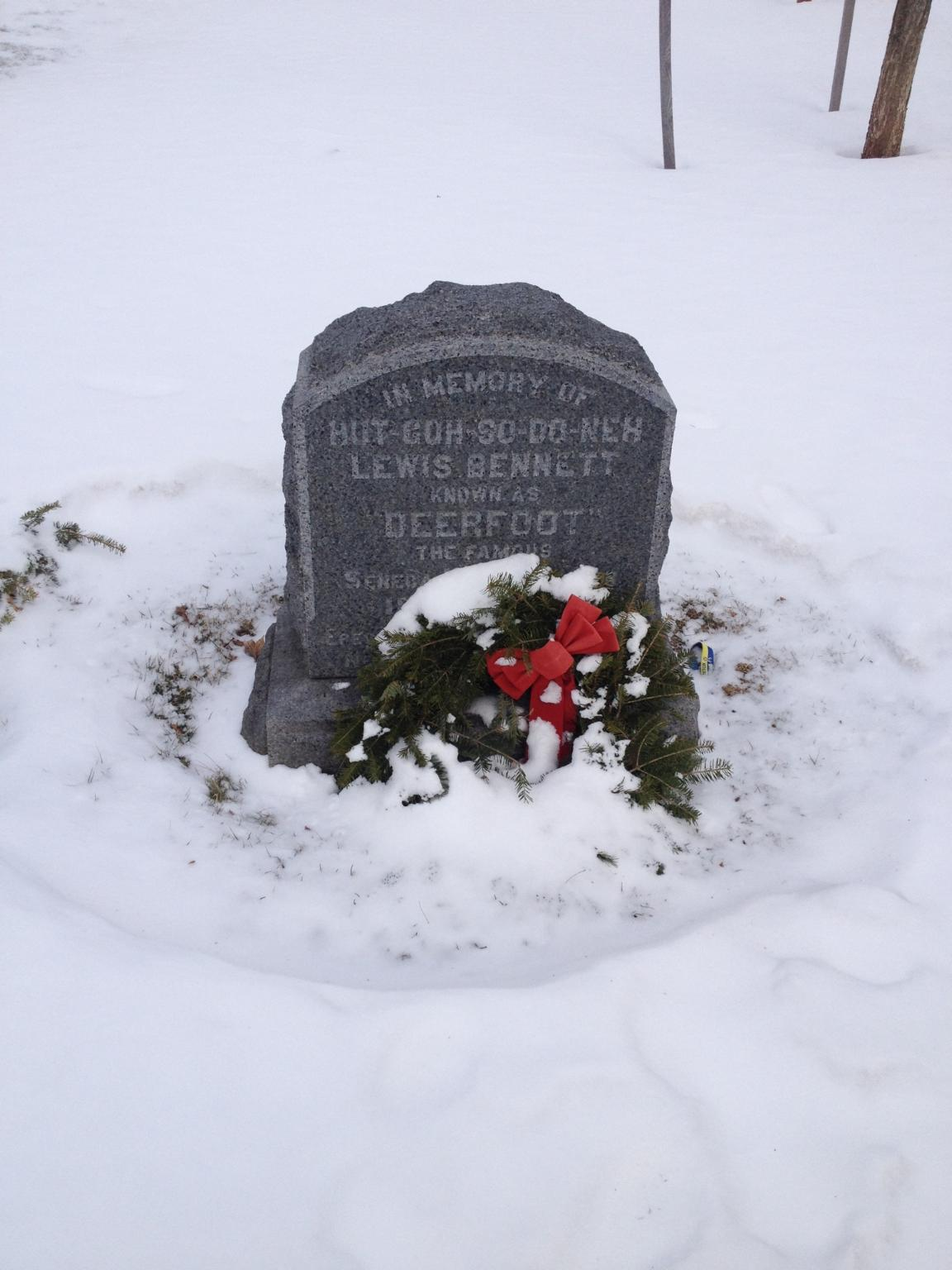 Deerfoot's grave can be found in Forest Lawn Cemetery in Buffalo, New York. The wreath on the grave indicates a family presence in the area.